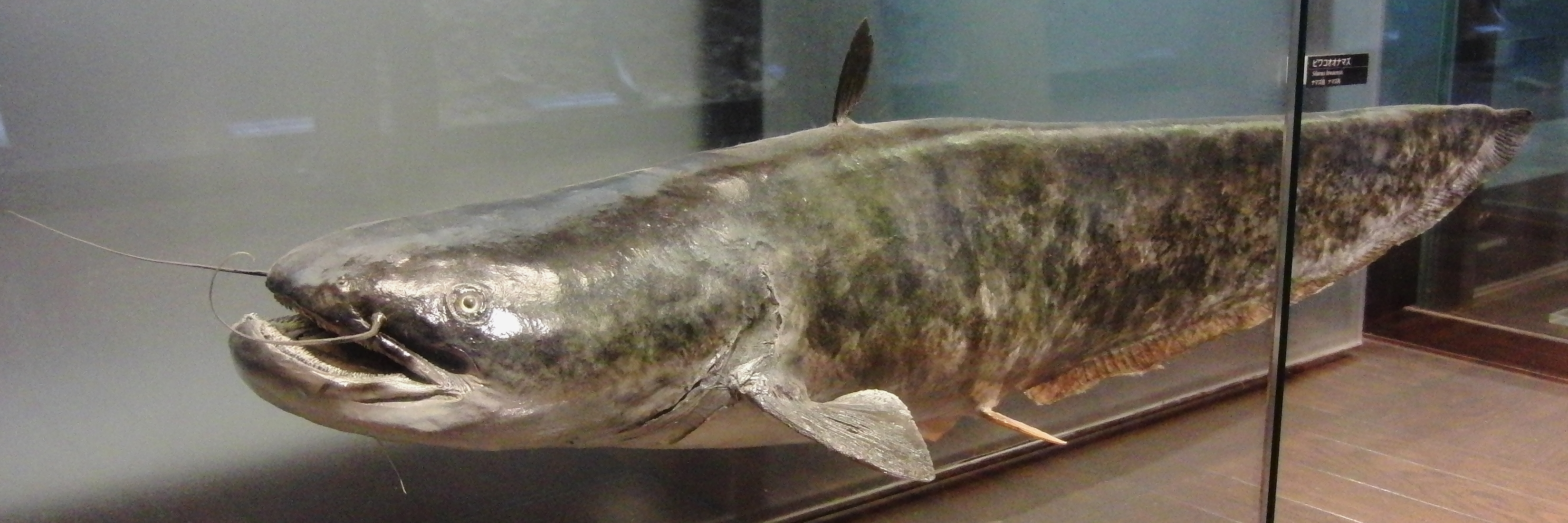 Stuffed specimen of Silurus biwaensis. Exhibit in the National Museum of Nature and Science, Tokyo, Japan.